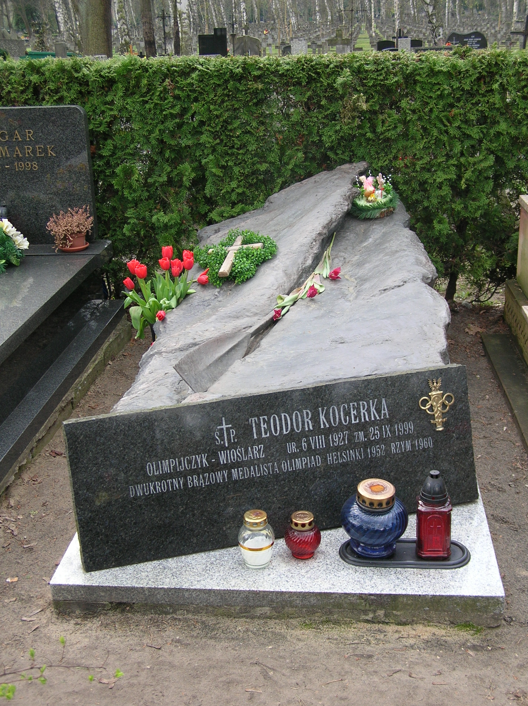 Teodor Kocerka tomb